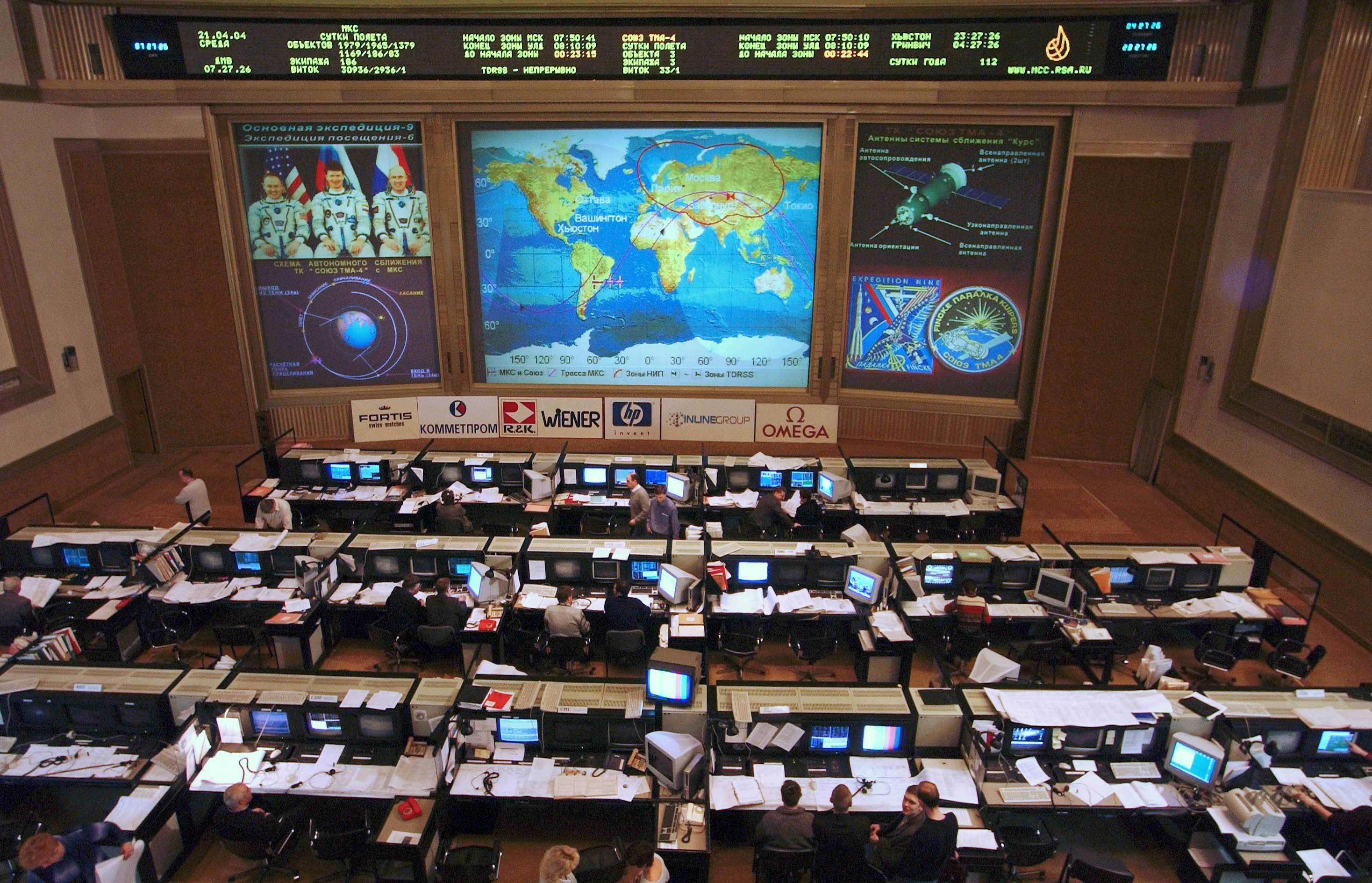 View of the Flight Control Room at Russia’s Federal Space Agency Mission Control Center in Korolev, Russia, located on the outskirts of Moscow.